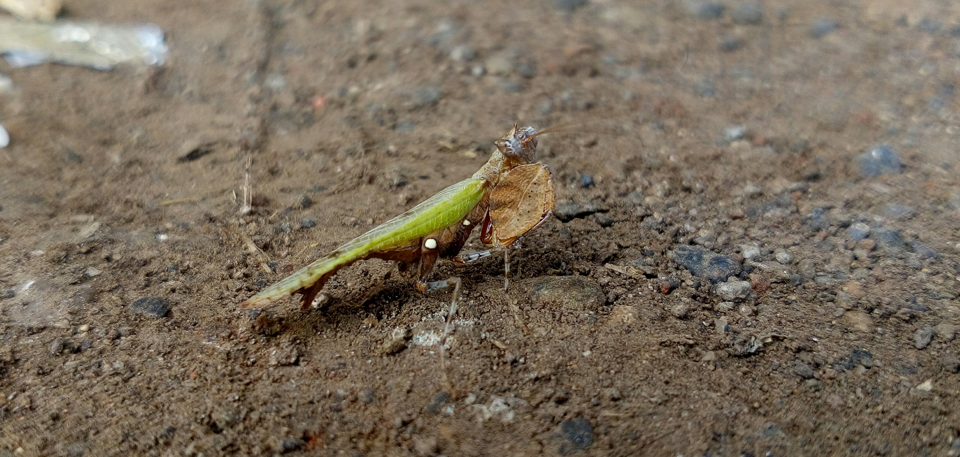 Hestiasula bruneriana